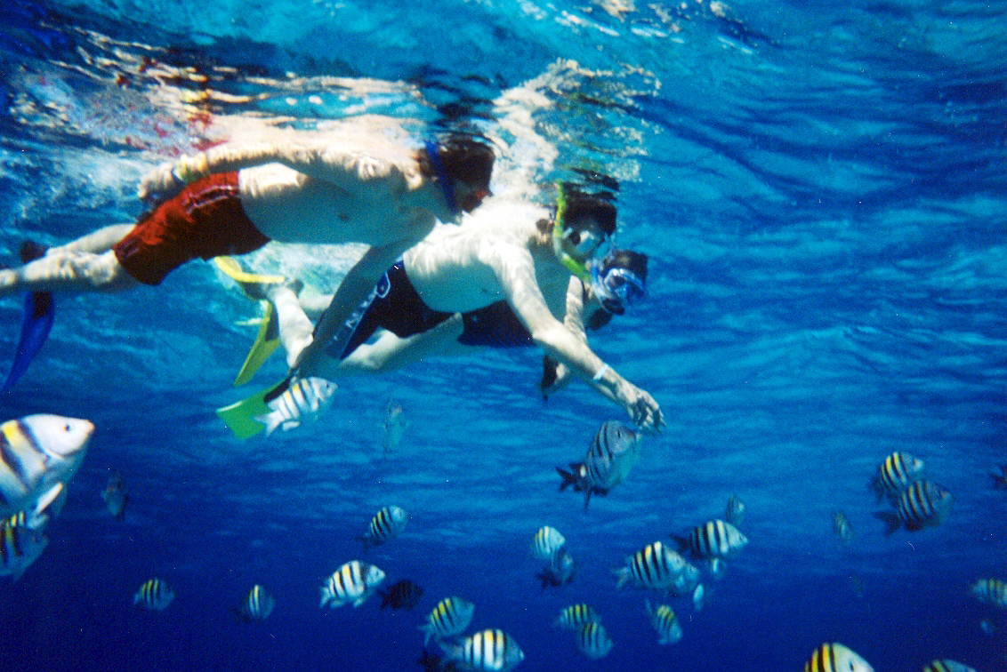 A group of snorkelers observing undersea wildlife. Cozumel, Mexico, January 2004.Cozumel, Dzul Ha